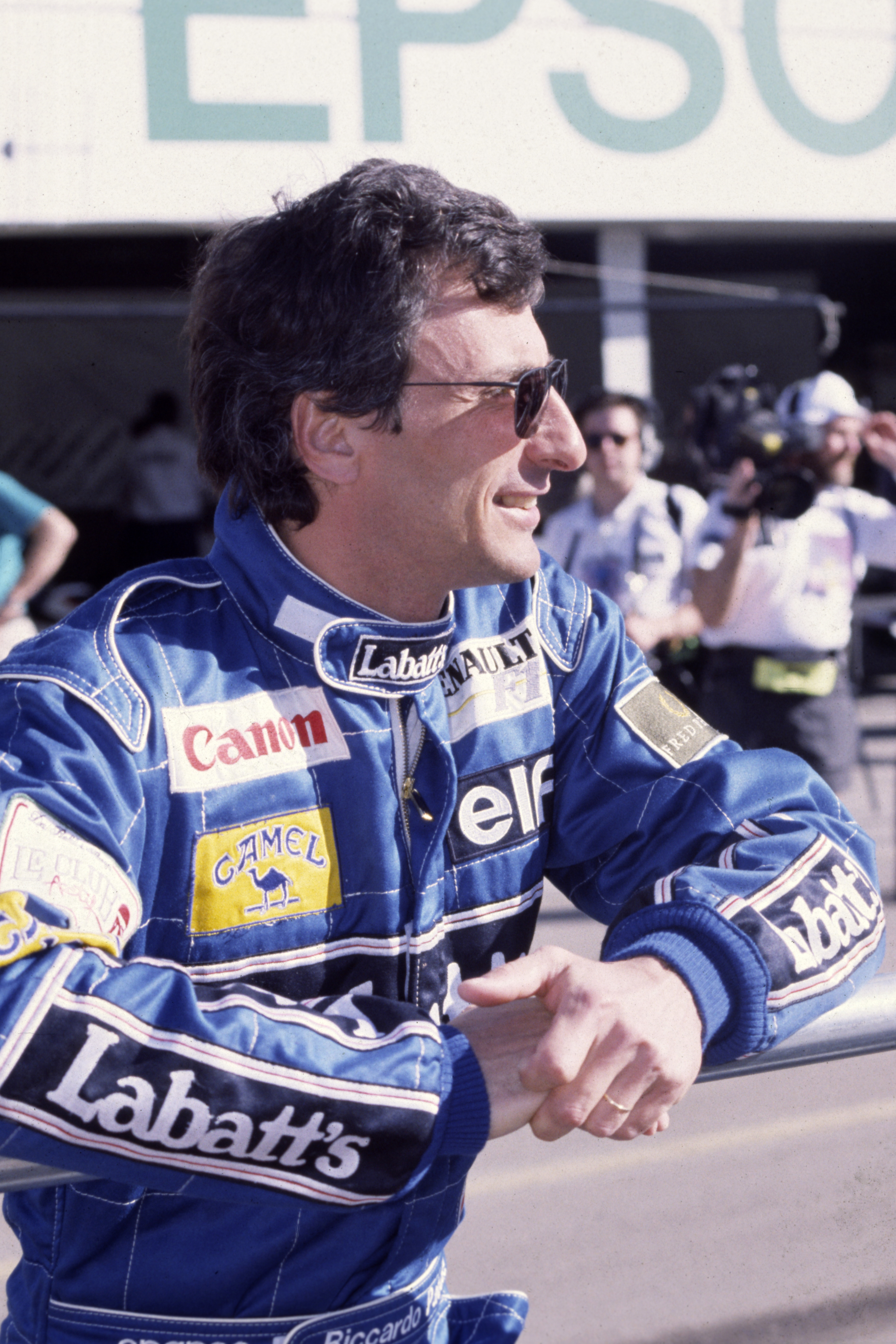 Riccardo Patrese at the 1991 United States Grand Prix in Phoenix, Arizona